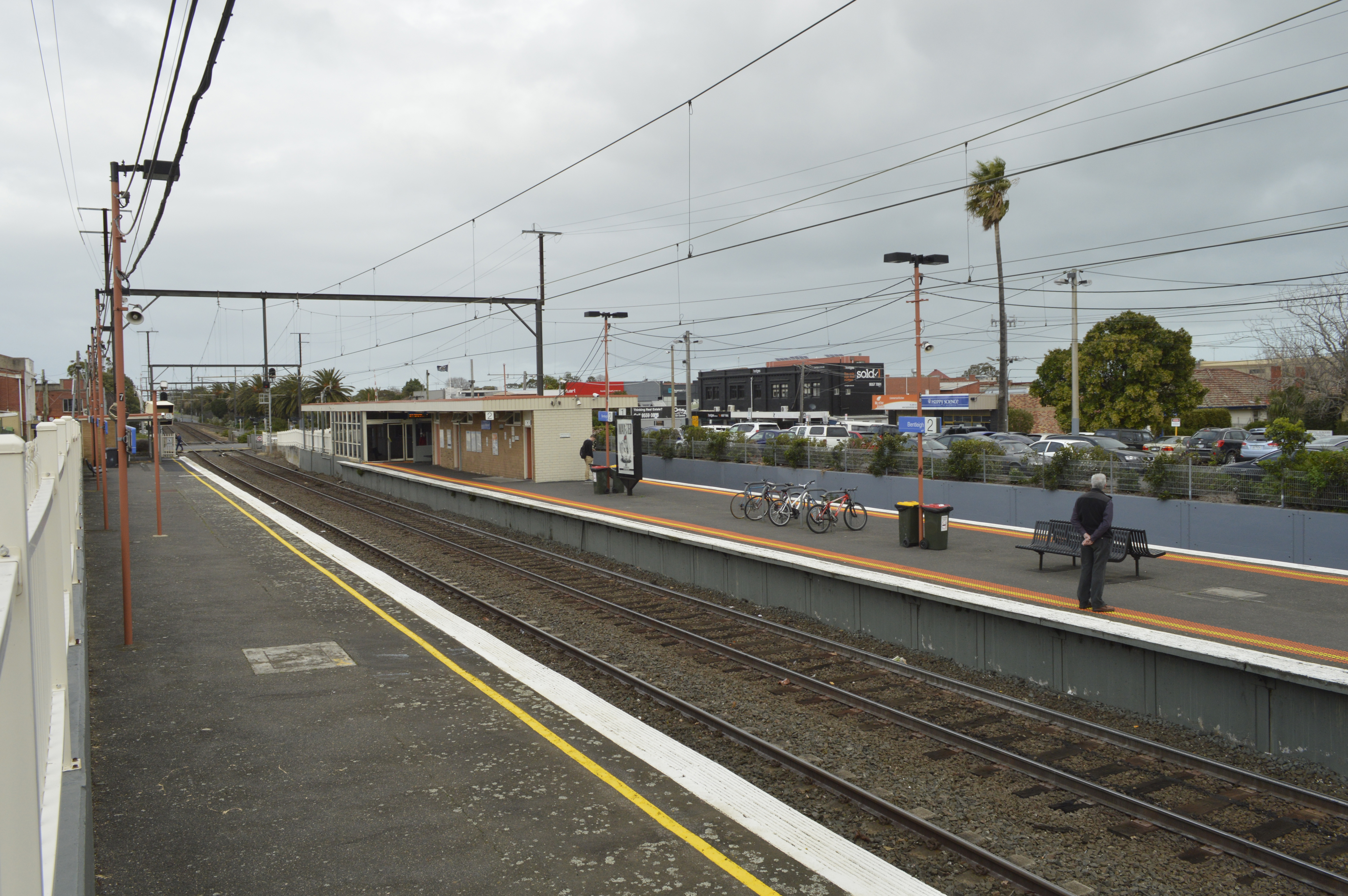 Overlooking the station looking in the down direction